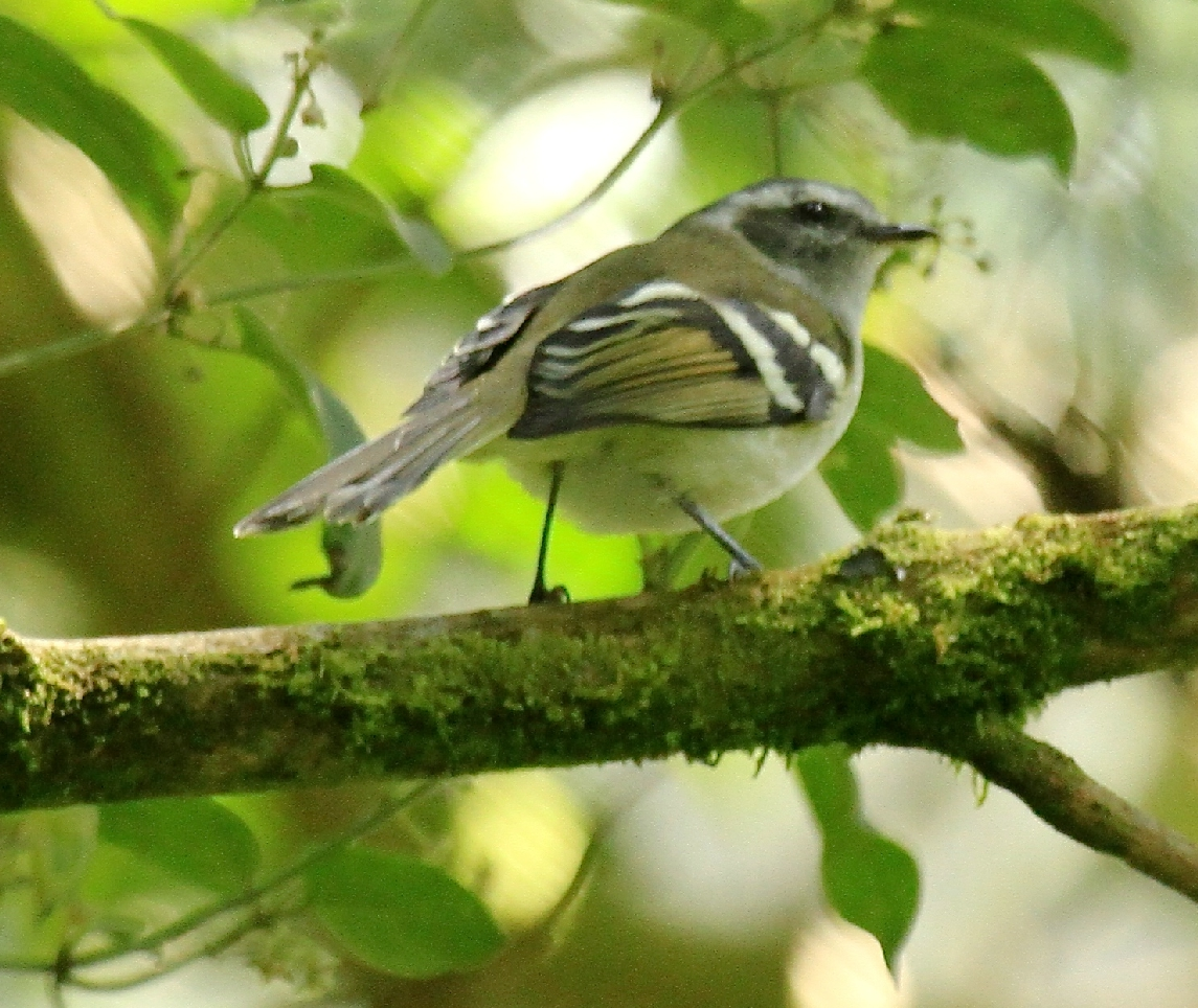 Guango Lodge - Ecuador